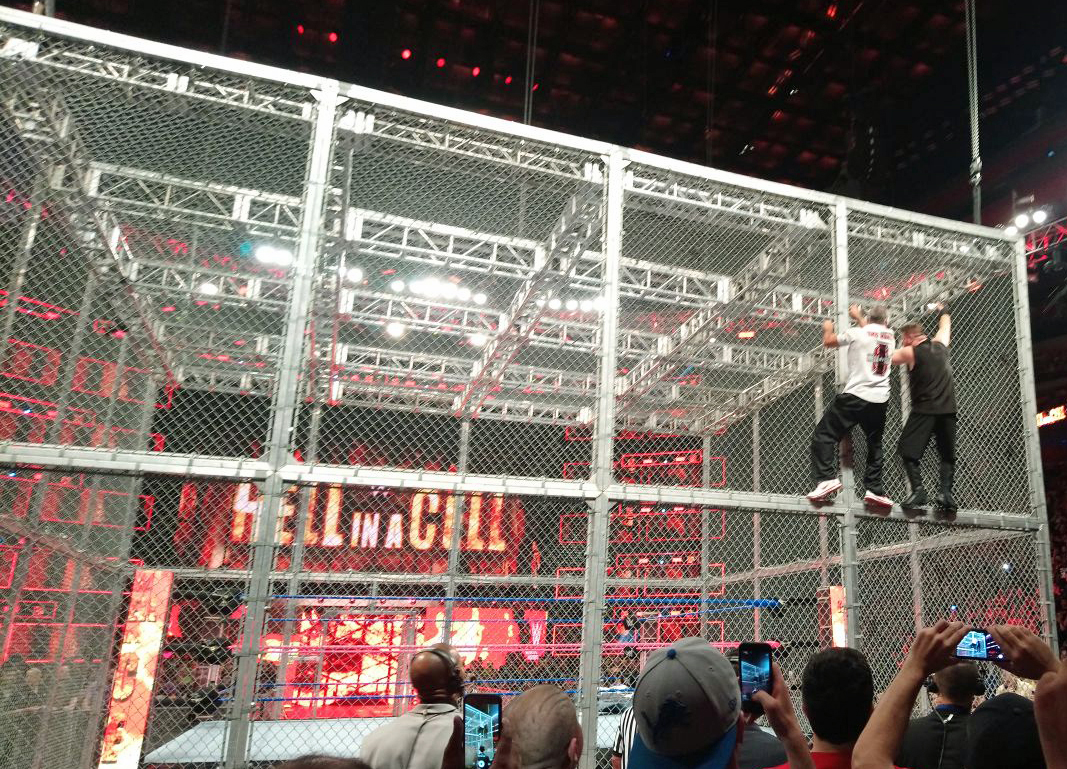 Shane McMahon and Kevin Owens grapple precariously on the side of the Cell, just above the Spanish announce table at the 2017 'Hell in a Cell' event in Detroit, Michigan.